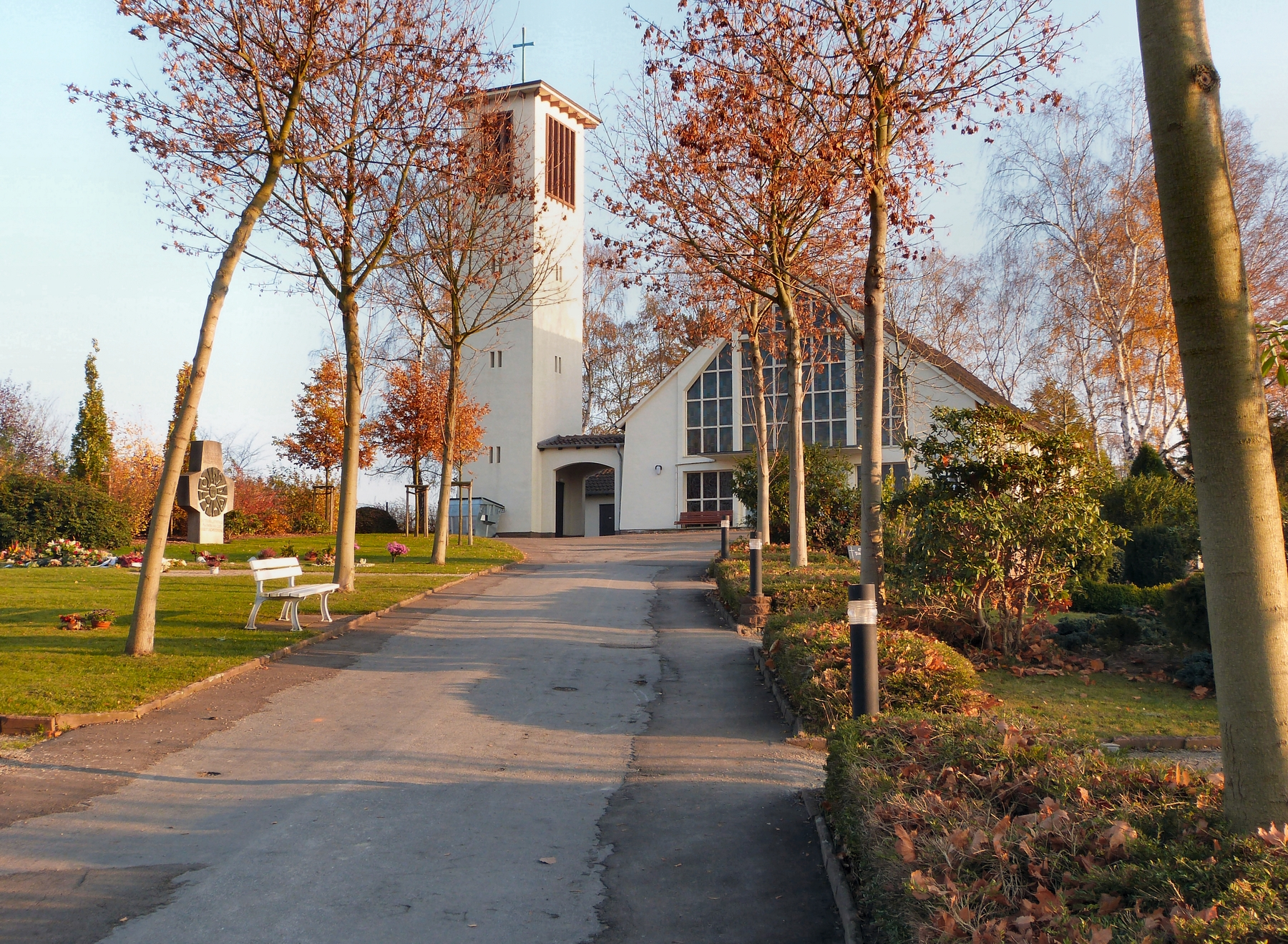 The parish church in the city Uffeln Vlotho